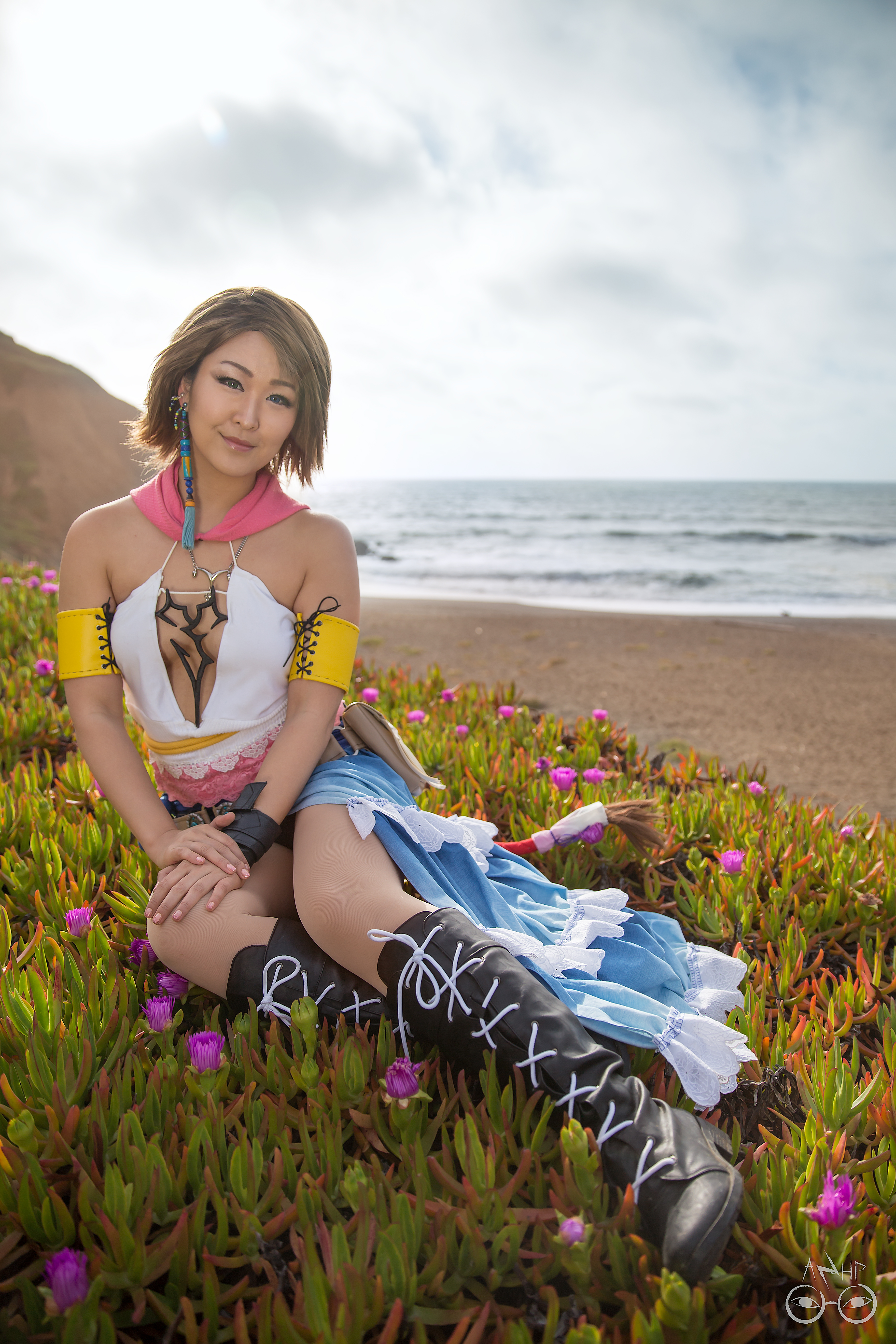 Cosplay of Yuna at FanimeCon 2014